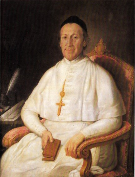 Aloys Högg, last abbott of Ursberg Abbey from 1790 to 1802